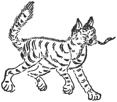 Tiangou (天狗) from the Shan Hai Jing (山海经, Chinese picture)